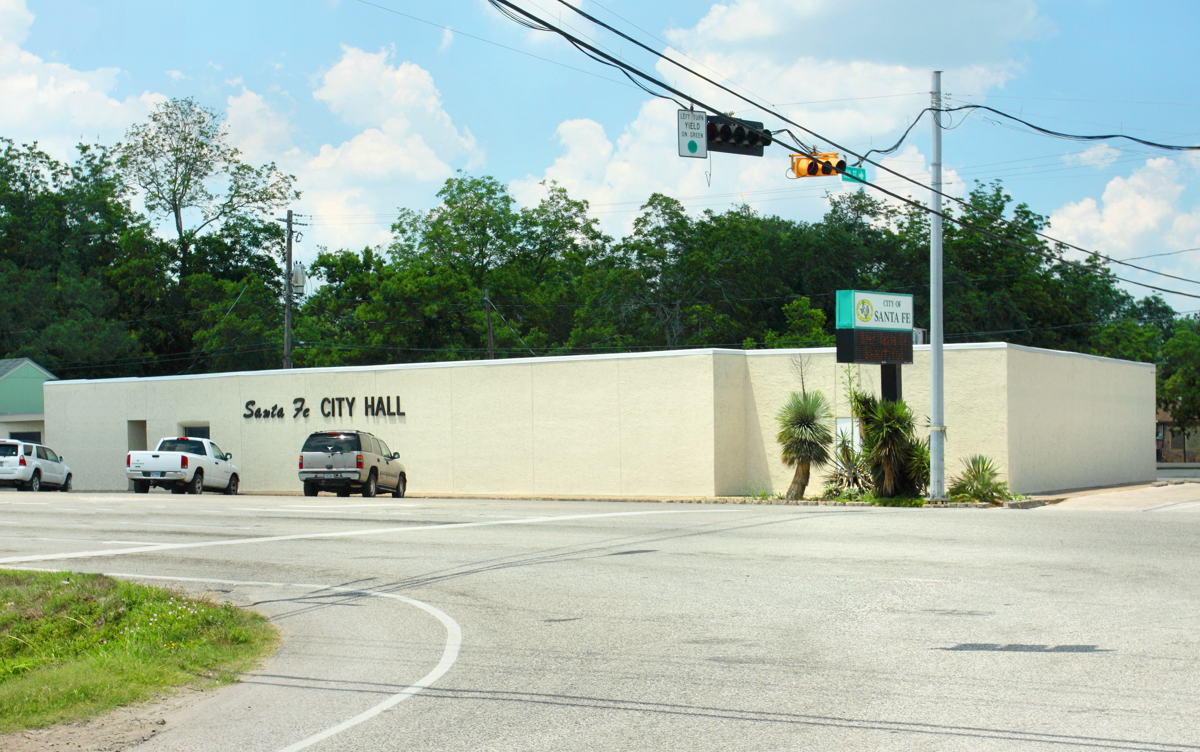 City Hall. Santa Fe, Texas, USA. 77510/77517